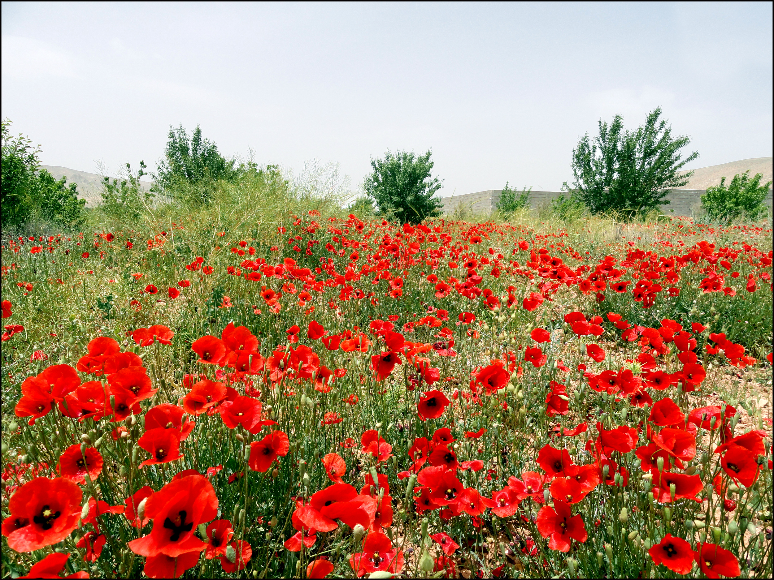 Field of Flowers